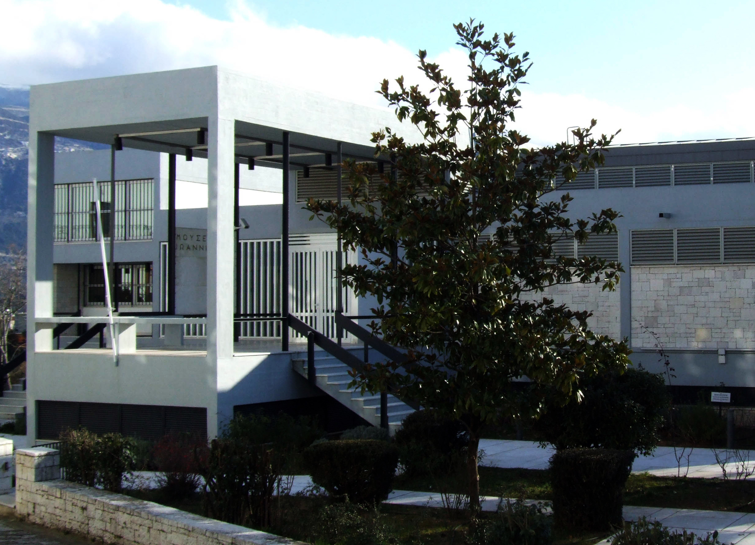 Entrance to the Ioannina Archaeological Museum